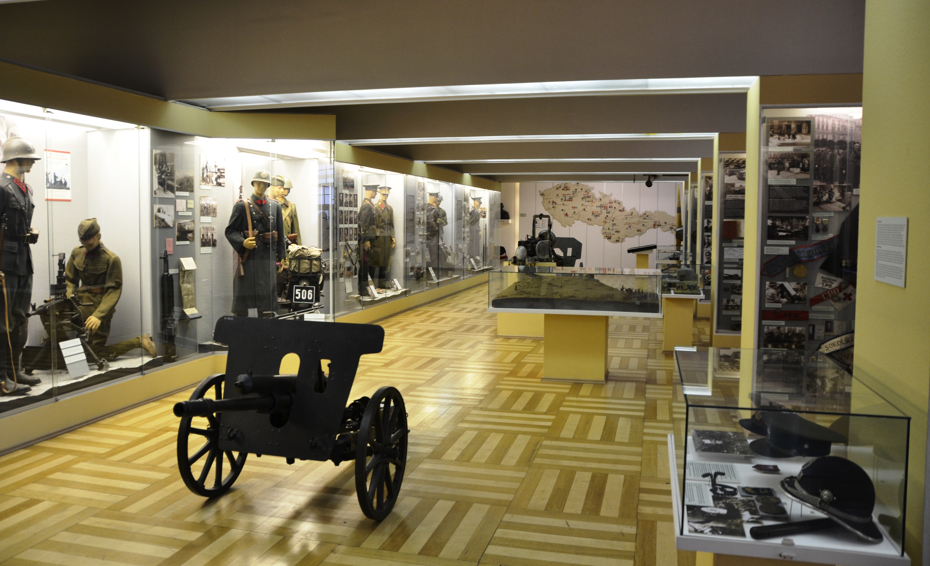 Armádní muzeum Žižkov in Prague, 2012.